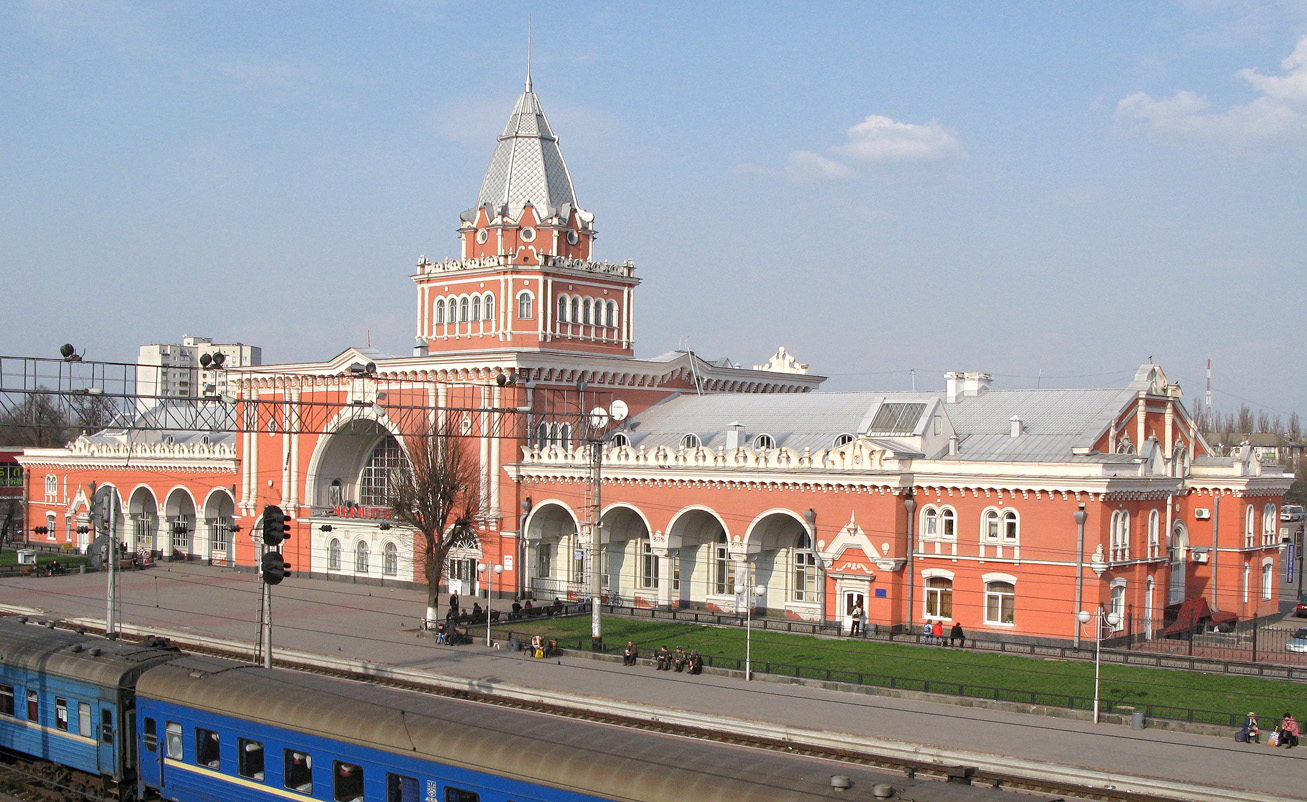 Chernihiv railway station, South-Western Railway, Ukraine